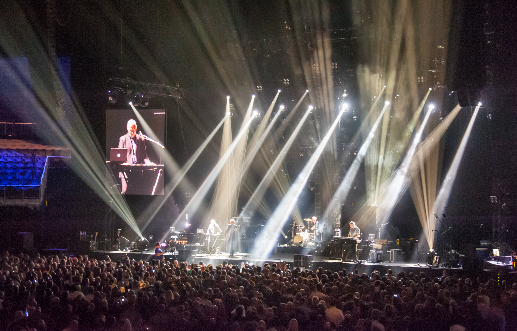 Ultravox playing concert at The O₂ in line with Simple Minds "Greatest Hits" tour, London